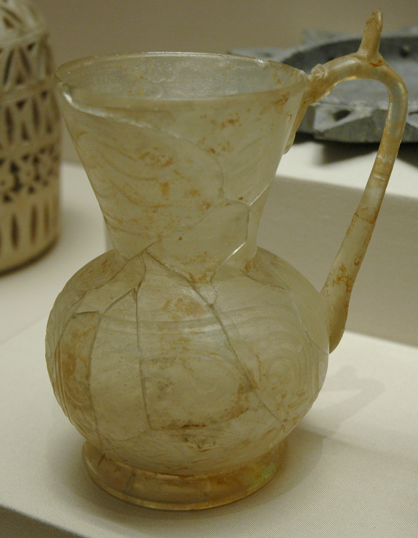 Pitcher with medallions decoration. Blown glass with wheel-cut decoration, 10th century, Nishapur (Tepe Madraseh).